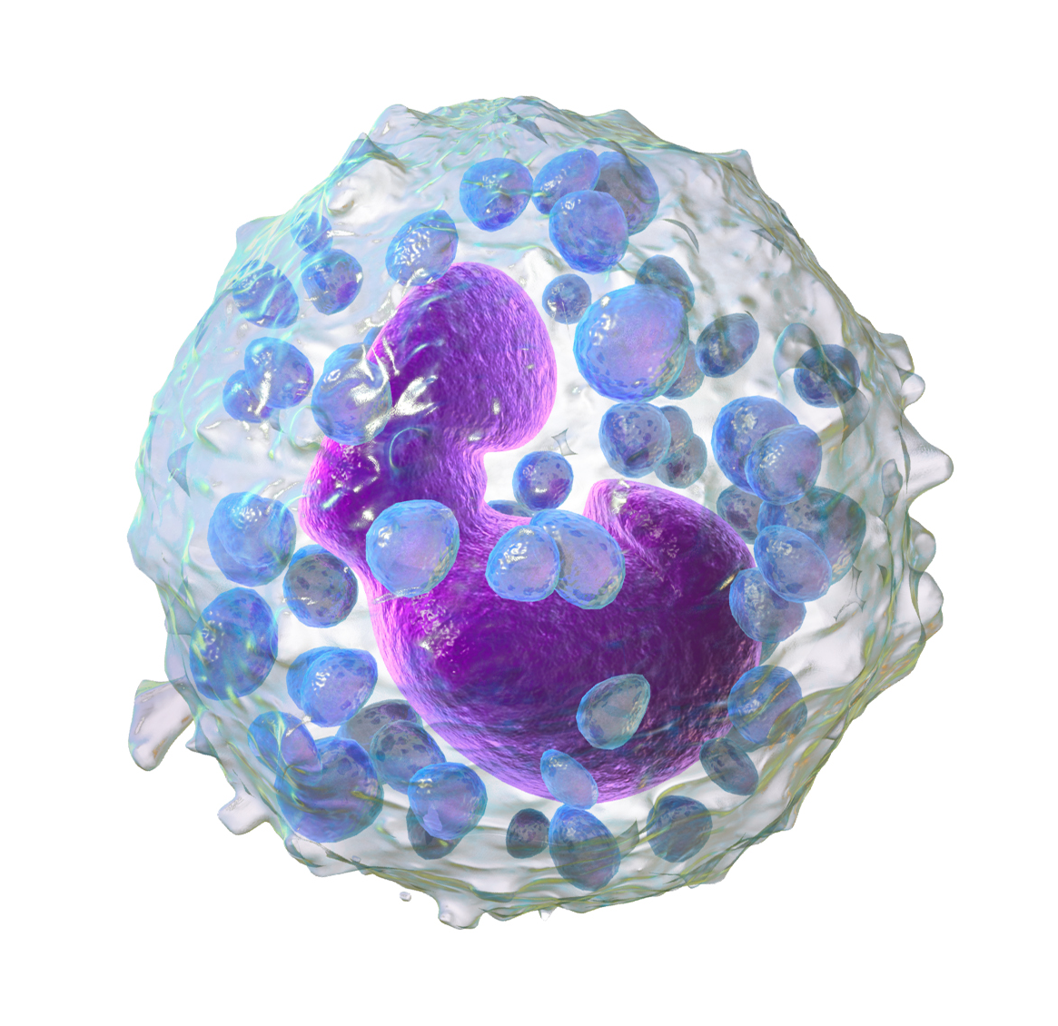 Basophil